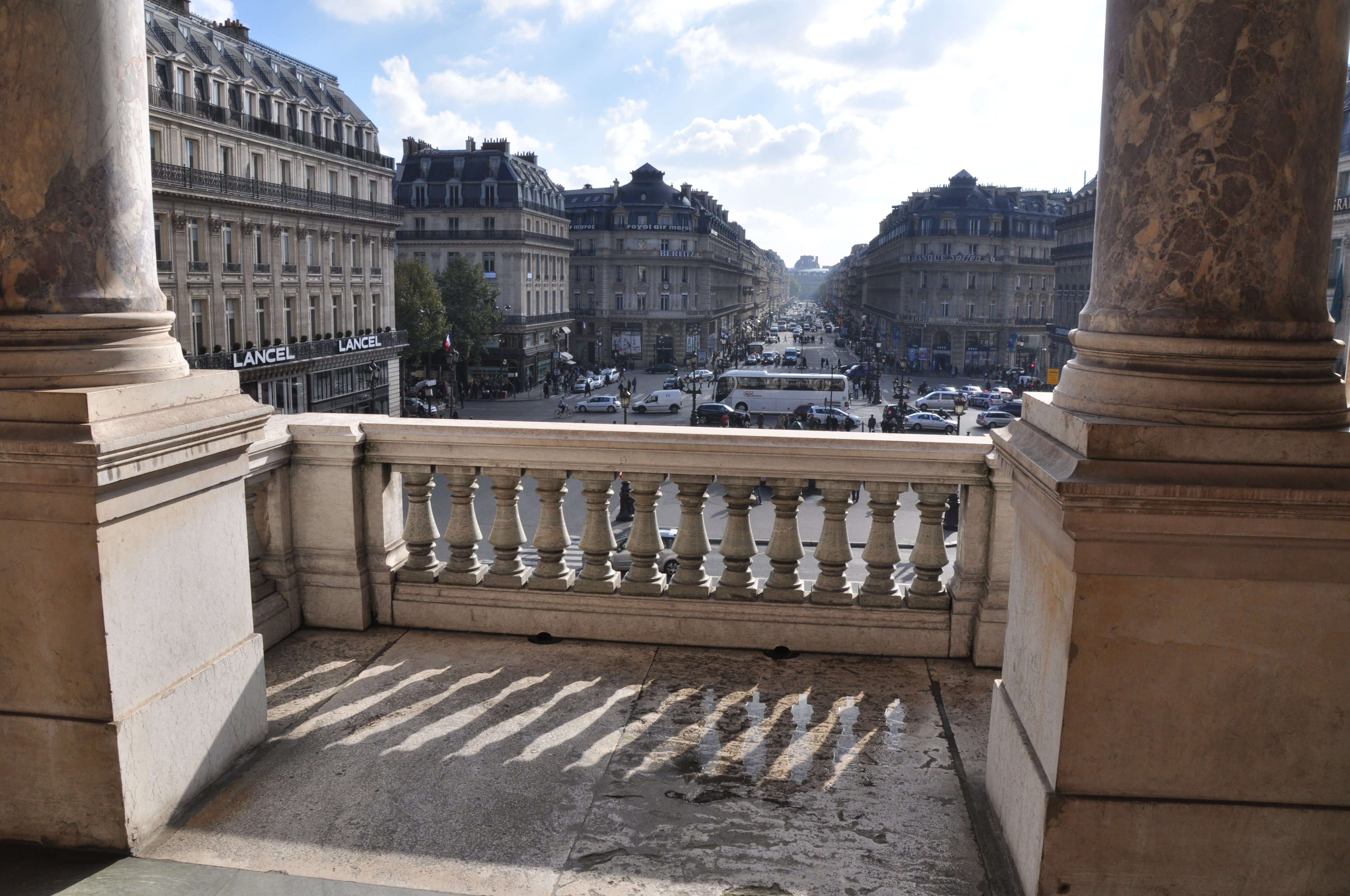 Paris (France), balustrades and Place de l'Opéra, shot from Palais Garnier.